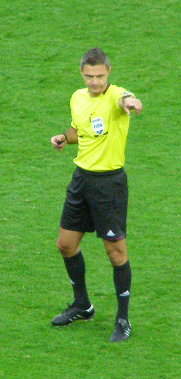 Gdańsk - PGE Arena - Euro 2012 - quarter final match Germany - Greece - referee Damir Skomina